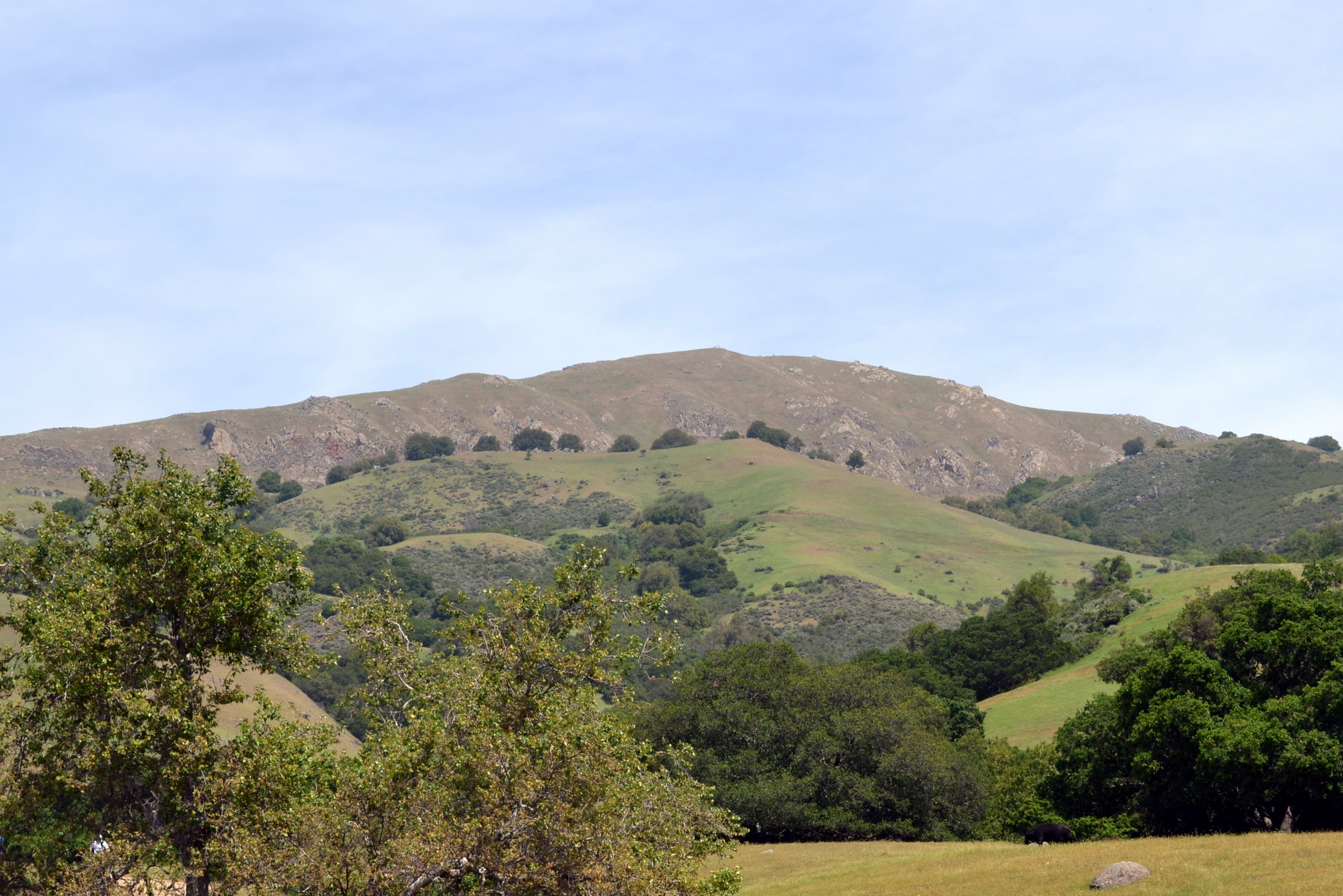 Mission Peak, in Fremont, California